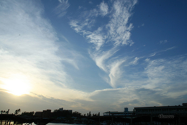 Typhoon Chanchu